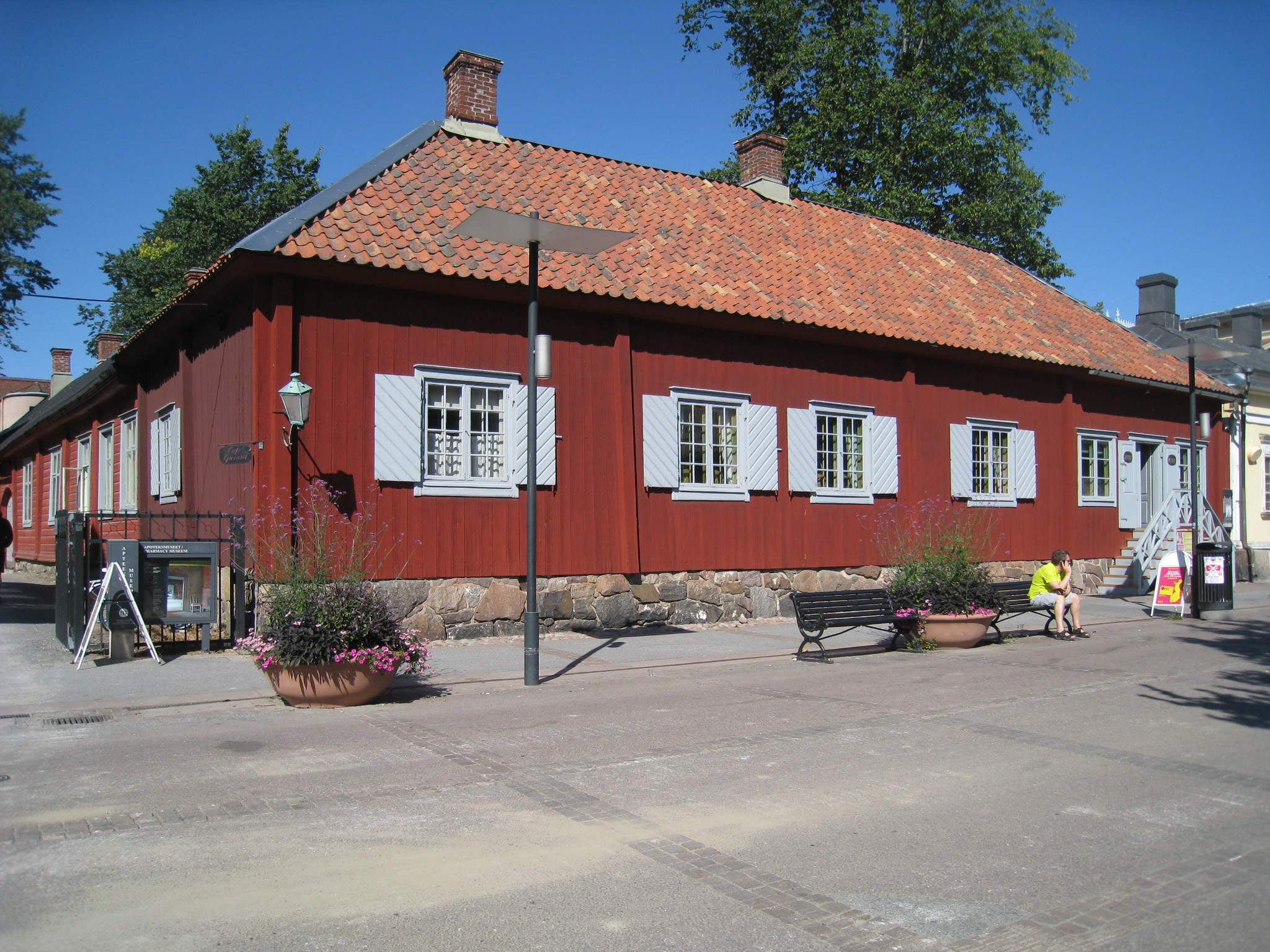 Pharmacy museum and Qwenselska House in Turku, Finland. Qwenselska House is the oldest wooden building in the city of Turku. The building is located in the city center at Aura river. It was built around 1700 as a citizen's home. Today, a pharmacy museum and cafe operate in the building.